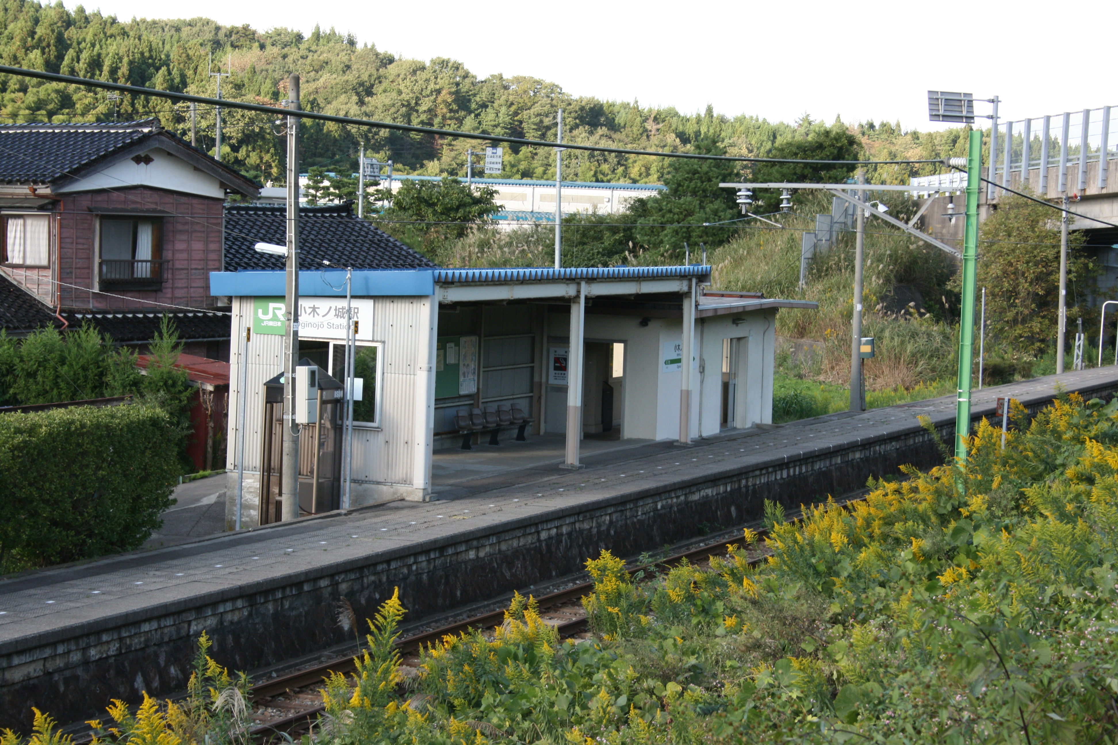 JR East Echigo Line Oginojo Station building